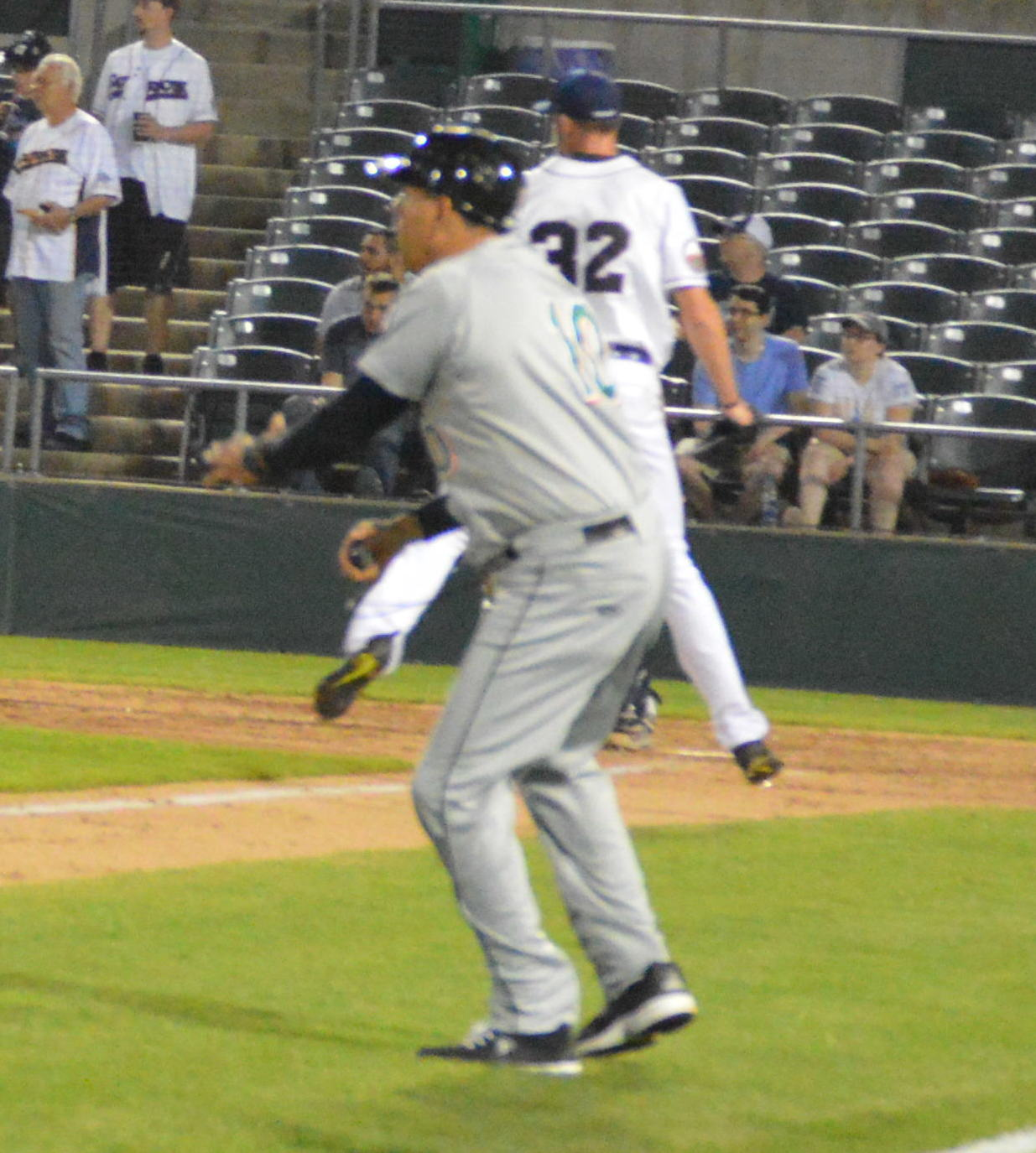 Kevin Baez waves home a runner during a 2018 game against the Somerset Patriots